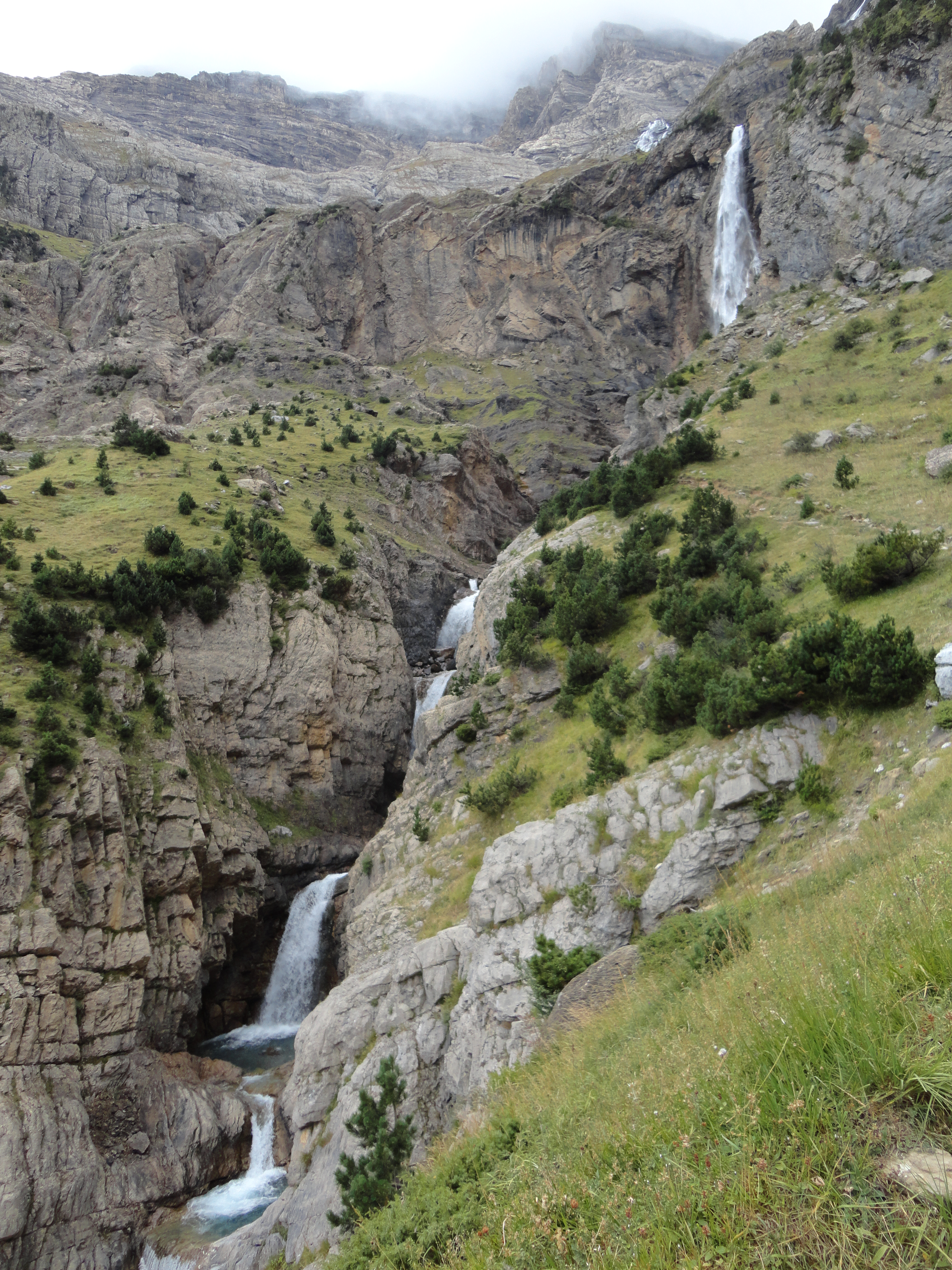 This is a photography of a Site of Community Importance in Spain with the ID: ES0000016. Natura2000 entry, EEA entry